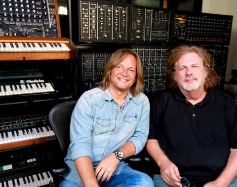 Rhett Lawrence and longtime collaborator, mixer Dave Pensado